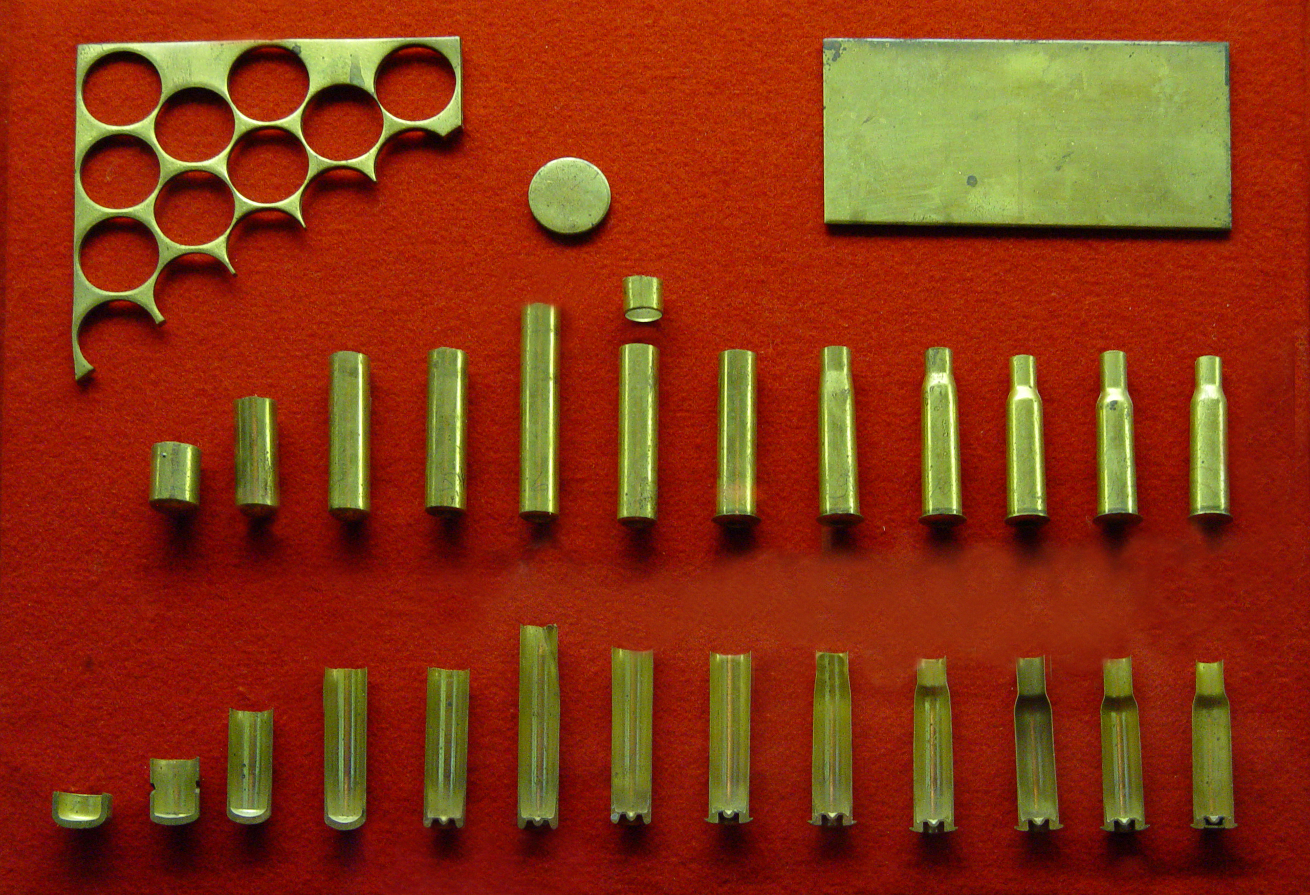 Steps of gun cartridge case production